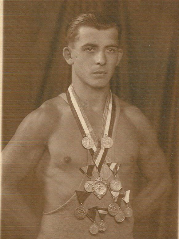 He was a great Hungarian wrestler